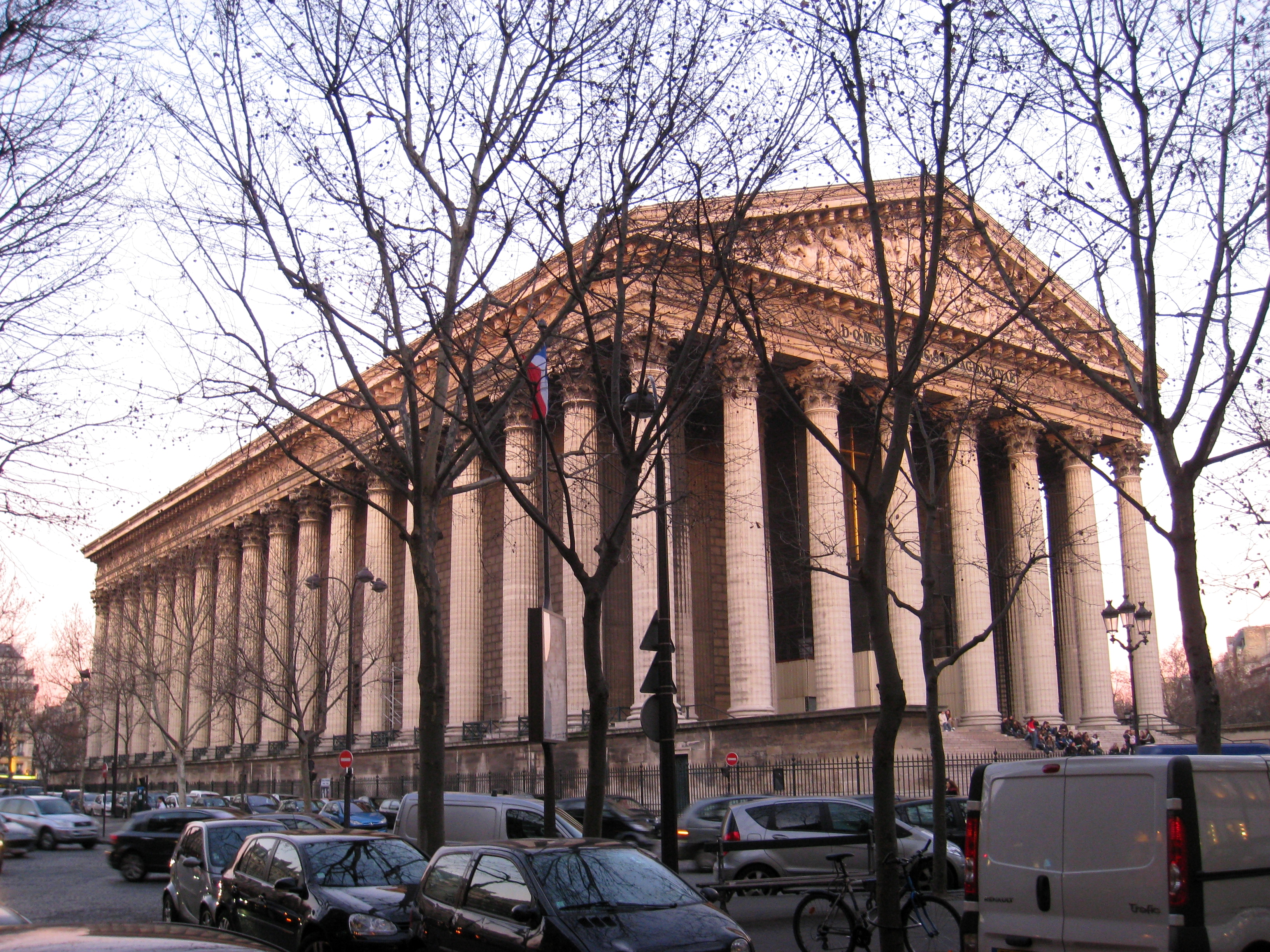 Église de la Madeleine, Paris, France - side view of exterior. The original work is old enough so that copyright (if any) has long since expired; thus this image is free of copyright restrictions.